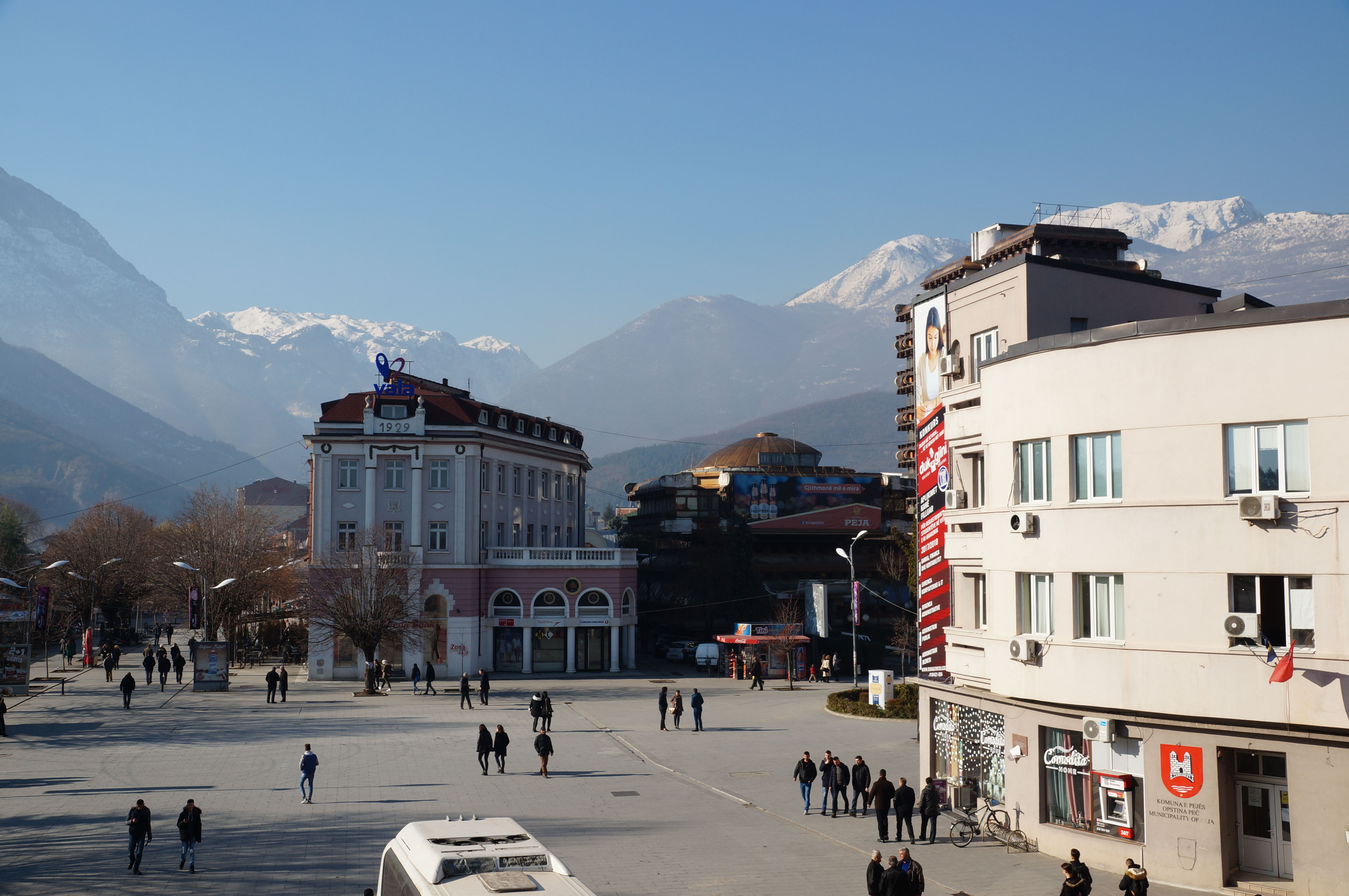 The city center of Peja and Rugova mountains in winter